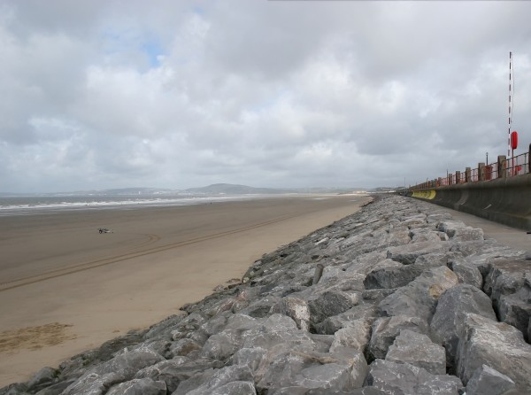 Aberavon beach,Port Talbot,south Wales. A view taken facing north east along Aberavon beach,showing the sea defences,with Swansea in the background.These sea defences are essential,as this beach is a favourite with surfers,and can get battered by ferocious seas at any time of the year.